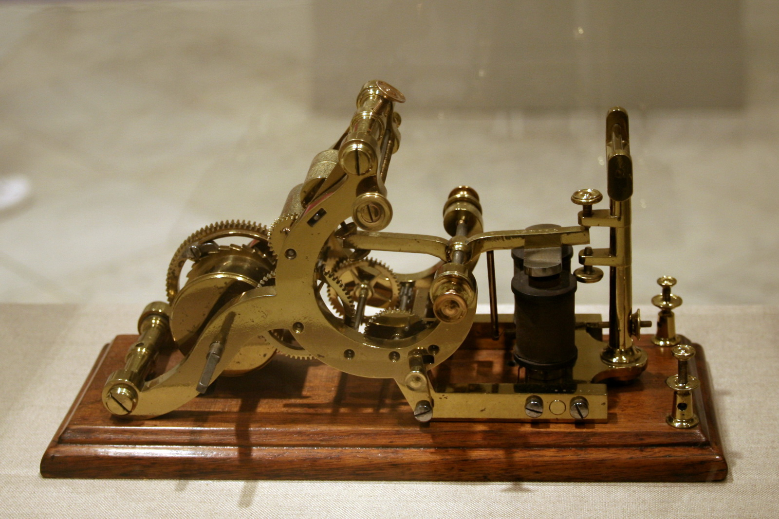 Automatic Telegraph Reciever patented by Samuel F. B. Morse, 1837